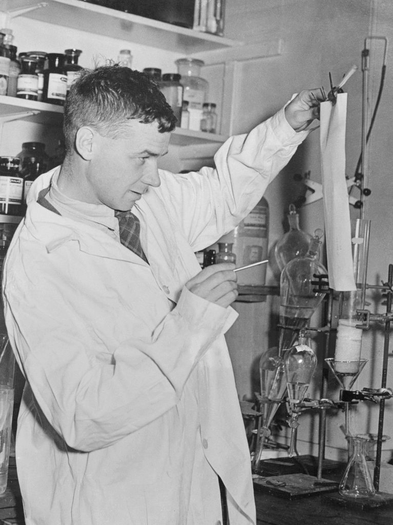 1952 Press Photo Dr. Richard L.M. Synge: Nobel Prize Chemistry 1952 - KSB00649